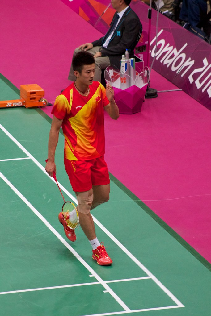 Chinese badminton player, Chen Long at the 2012 London Olympics